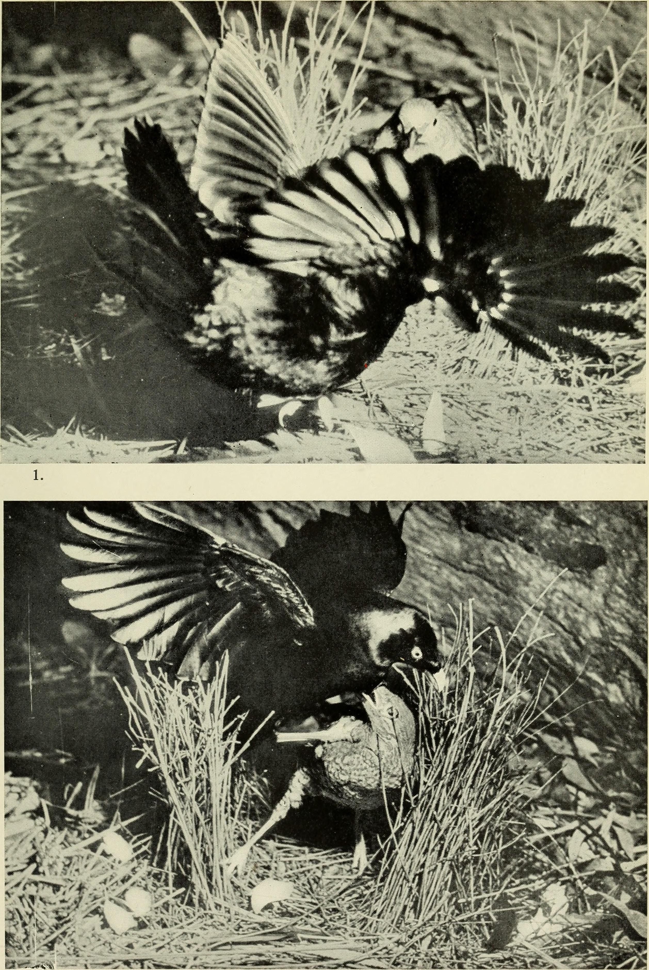 Title: The Australian zoologist Year: 1914 (1910s) Authors: Royal Zoological Society of New South Wales; Royal Zoological Society of New South Wales. Proceedings Subjects: Zoology; Zoology; Zoology Publisher: (Sydney, Royal Zoological Society of New South Wales) Text Appearing Before Image: THE AUSTRALIAN ZOOLOGIST, VOL. XII. PLATE XXXIV. Text Appearing After Image: if.. Satin Bower-bird. Photos—N. Chaffer.